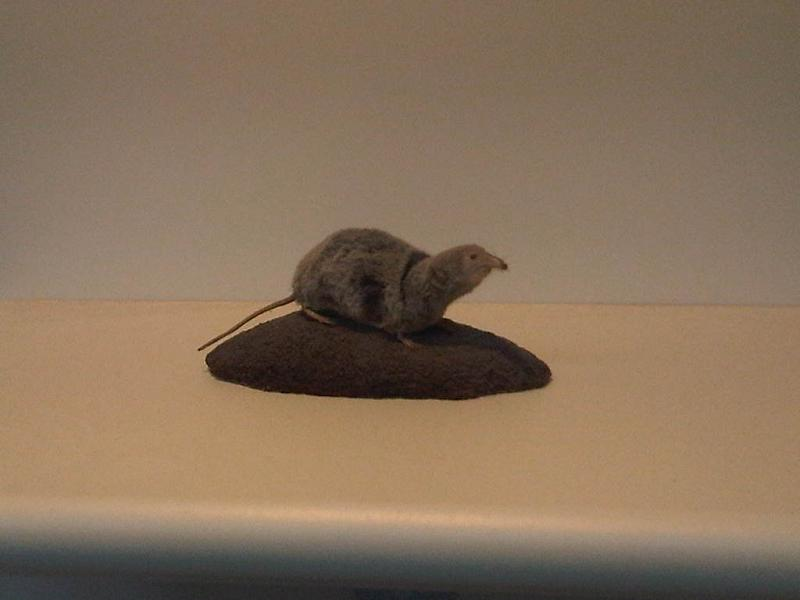 Taxidermied Eurasian Pygmy Shrew (Sorex minutus) at the Natural History Museum in London, England.